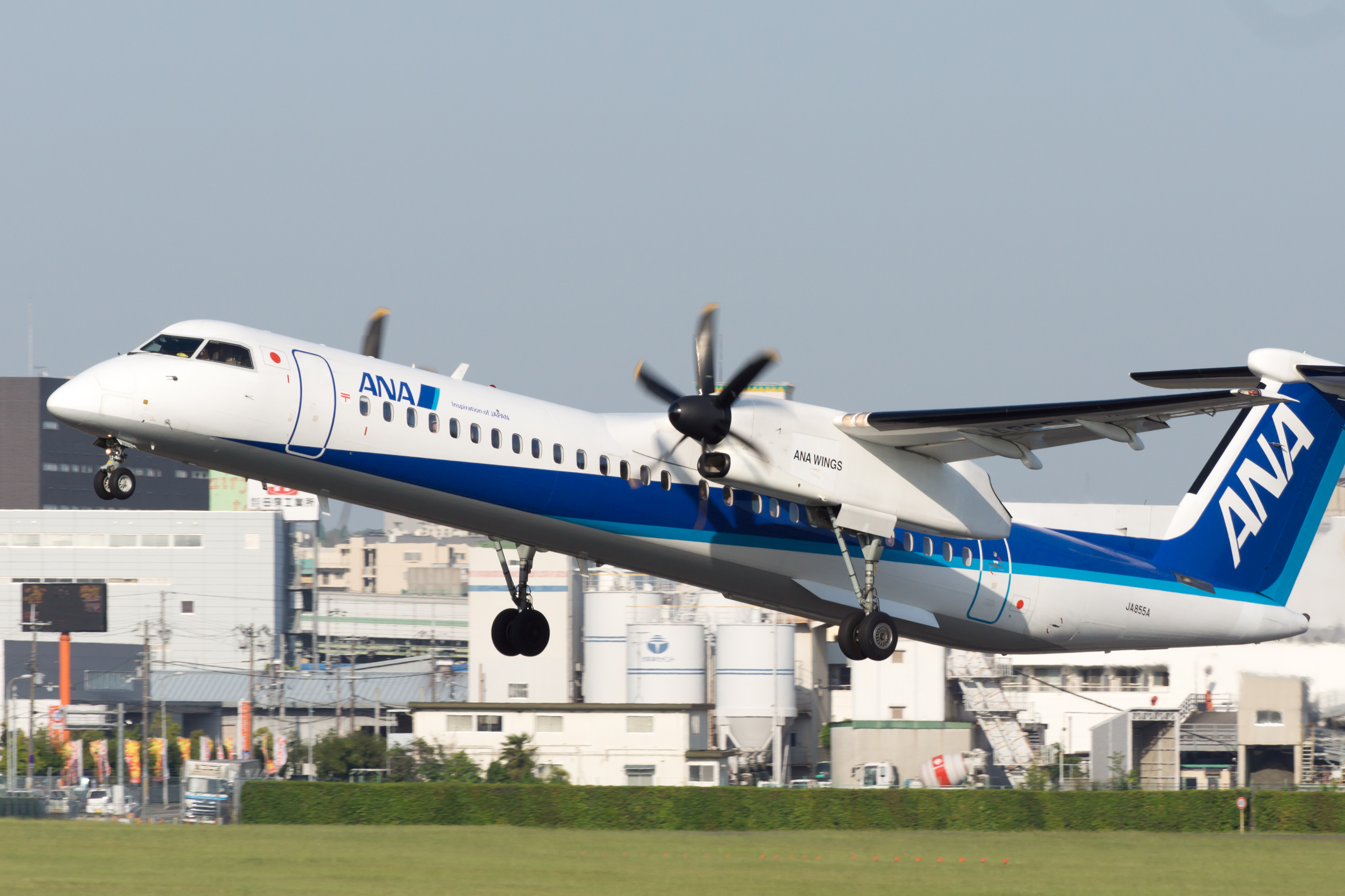 ANA Wings / ANAウィングス Bombardier DHC-8-402Q Dash 8 JA855A NH549, Departed to Kagoshima Osaka Itami Int'l Airport